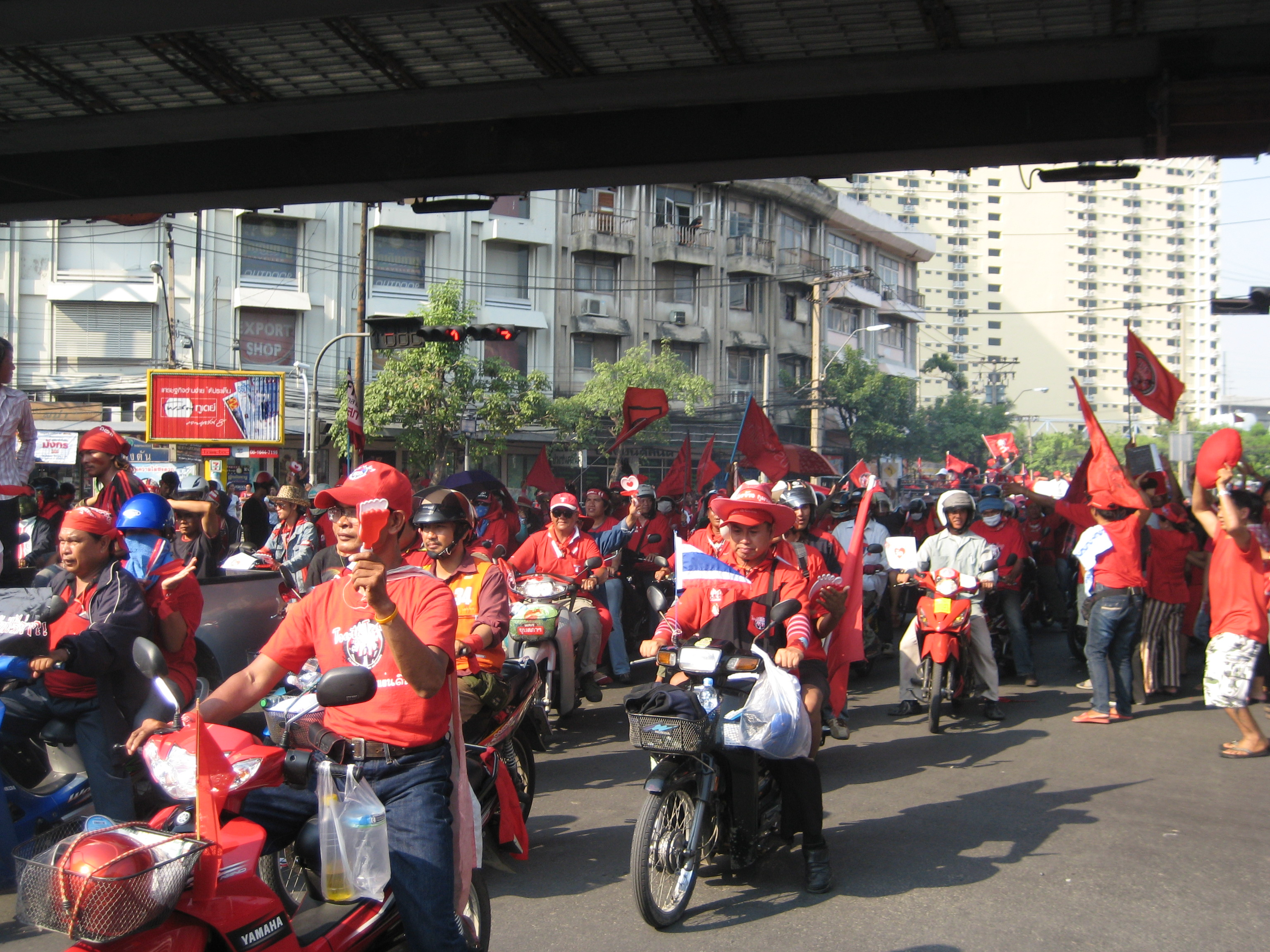 UDD's van at Klong Tan on 20 March 2010